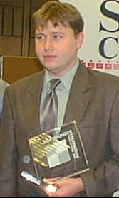 Zoltan Varga, Chess Days 2001 at Dortmund